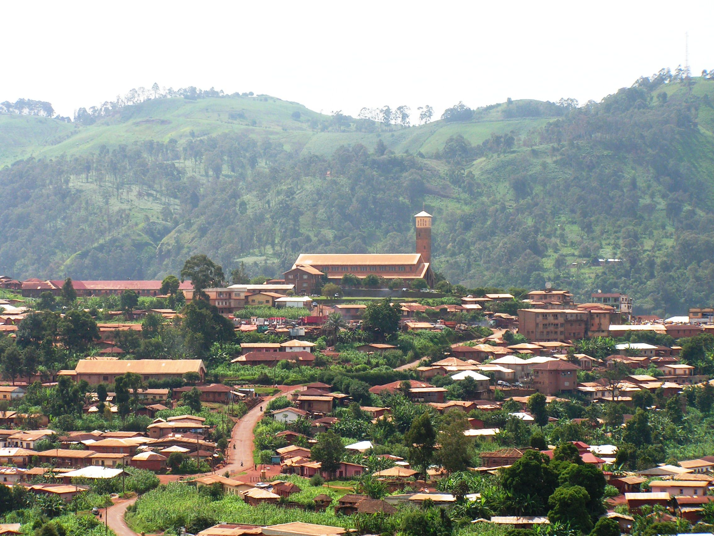 Na for look Cathedral when you stand up for Tobin side.